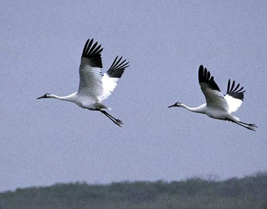 Whooping Cranes (Grus americana) at Aransas National Wildlife Refuge Cropped from U.S. Fish and Wildlife Service Digital Library System